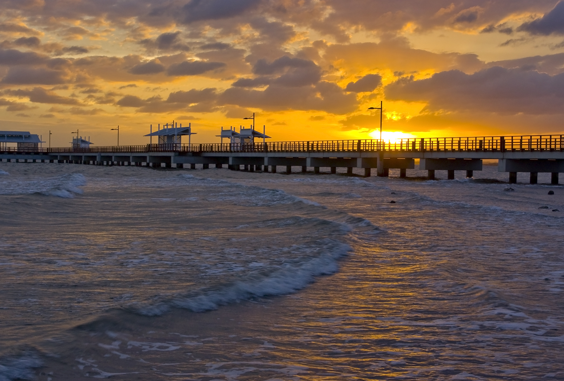 Sunset Woody Point Jetty Project